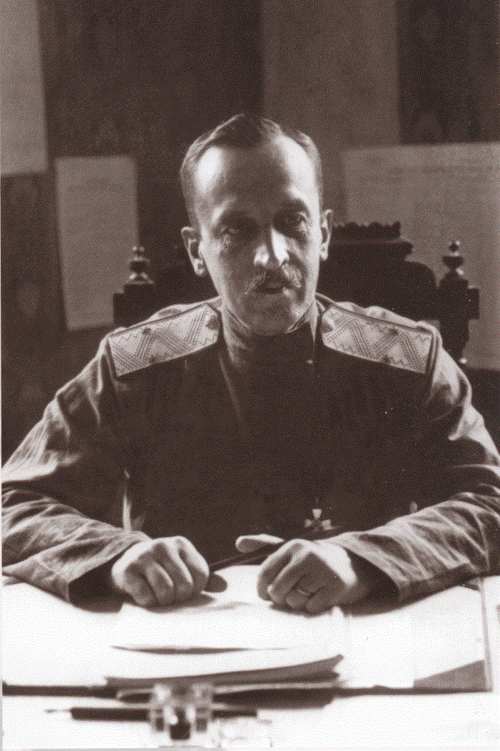 Russian general Nikolay Emilyevich Bredov